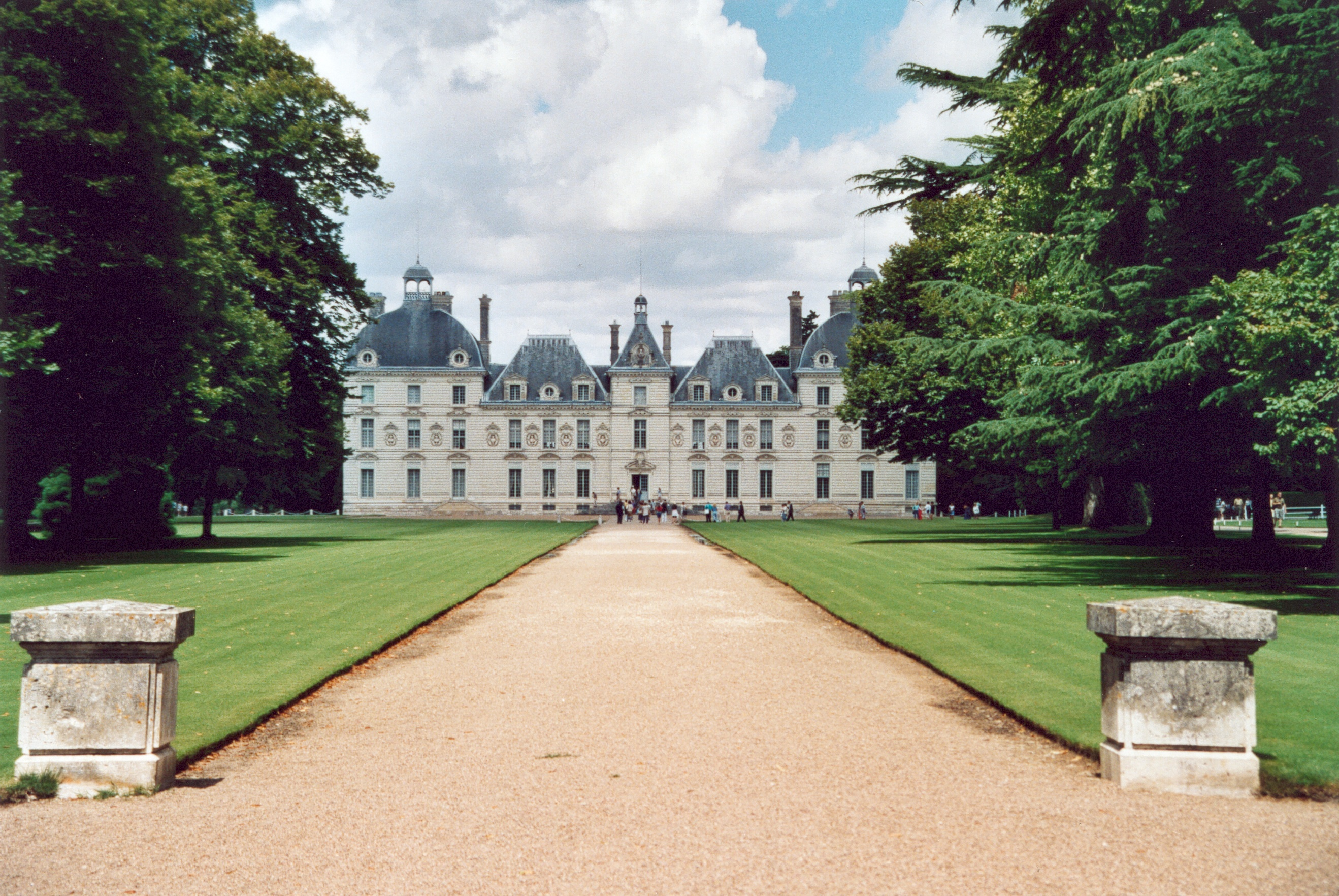 France : Castle of Cheverny (Loir et Cher)